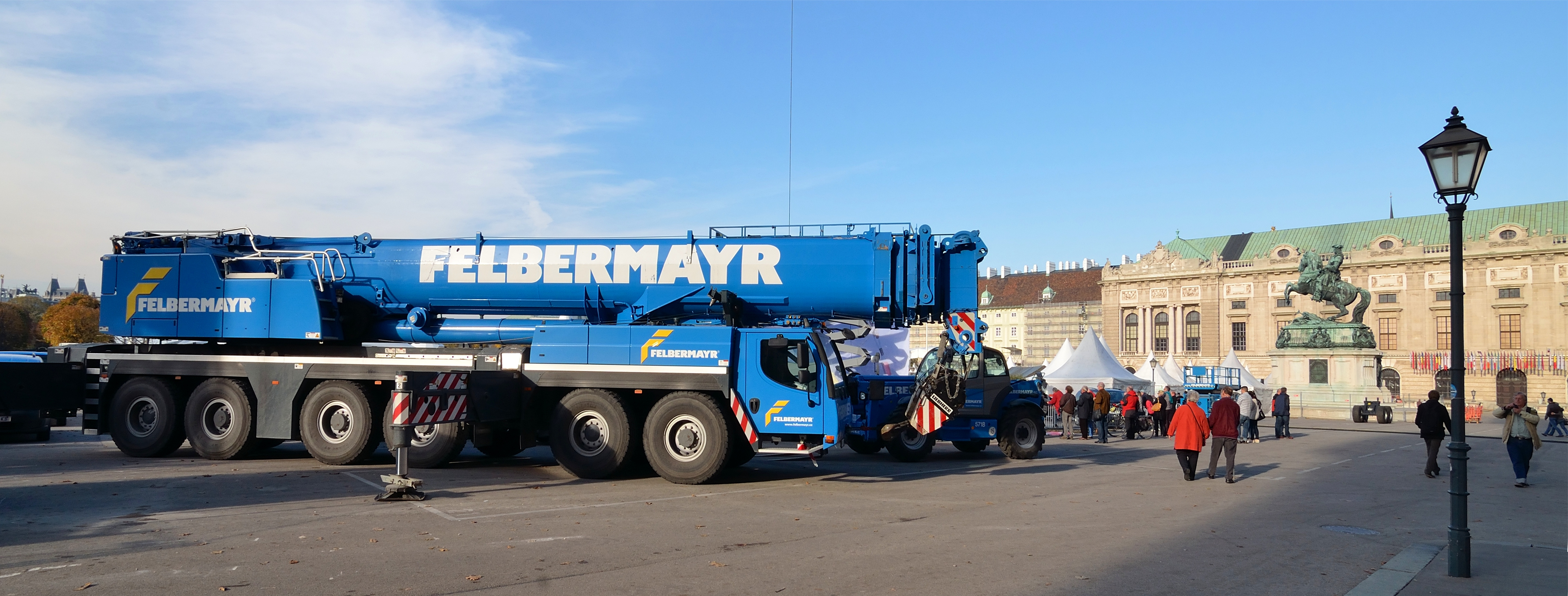 Felbermayr crane truck by at the Heldenplatz, Vienna.